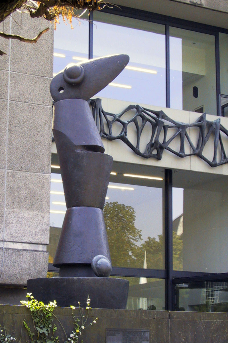 Max Ernst, "Habakuk", 1971, - Deutschland, Nordrhein-Westfalen, Düsseldorf, Kunsthalle, (Hintergrund: Karl Hartungs Bronzerelief 1967)